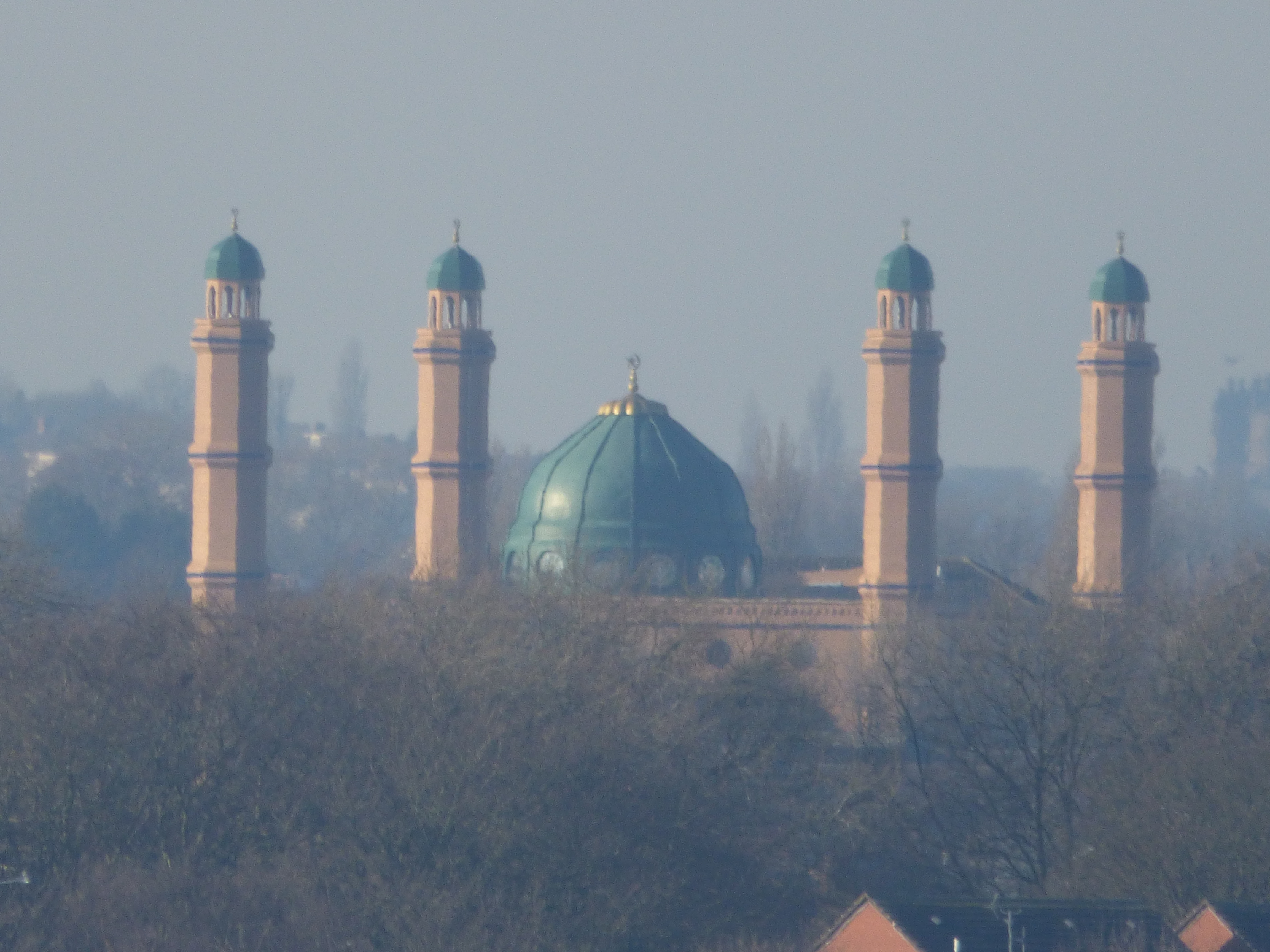 View from the Library of Birmingham on the Discovery Terrace on a nice sunny winter's day in Birmingham. Most of these views were of the Jewellery Quarter towards Sandwell. A mosque in Smethwick with four minarets and a dome. Smethwick Jamia Masjid